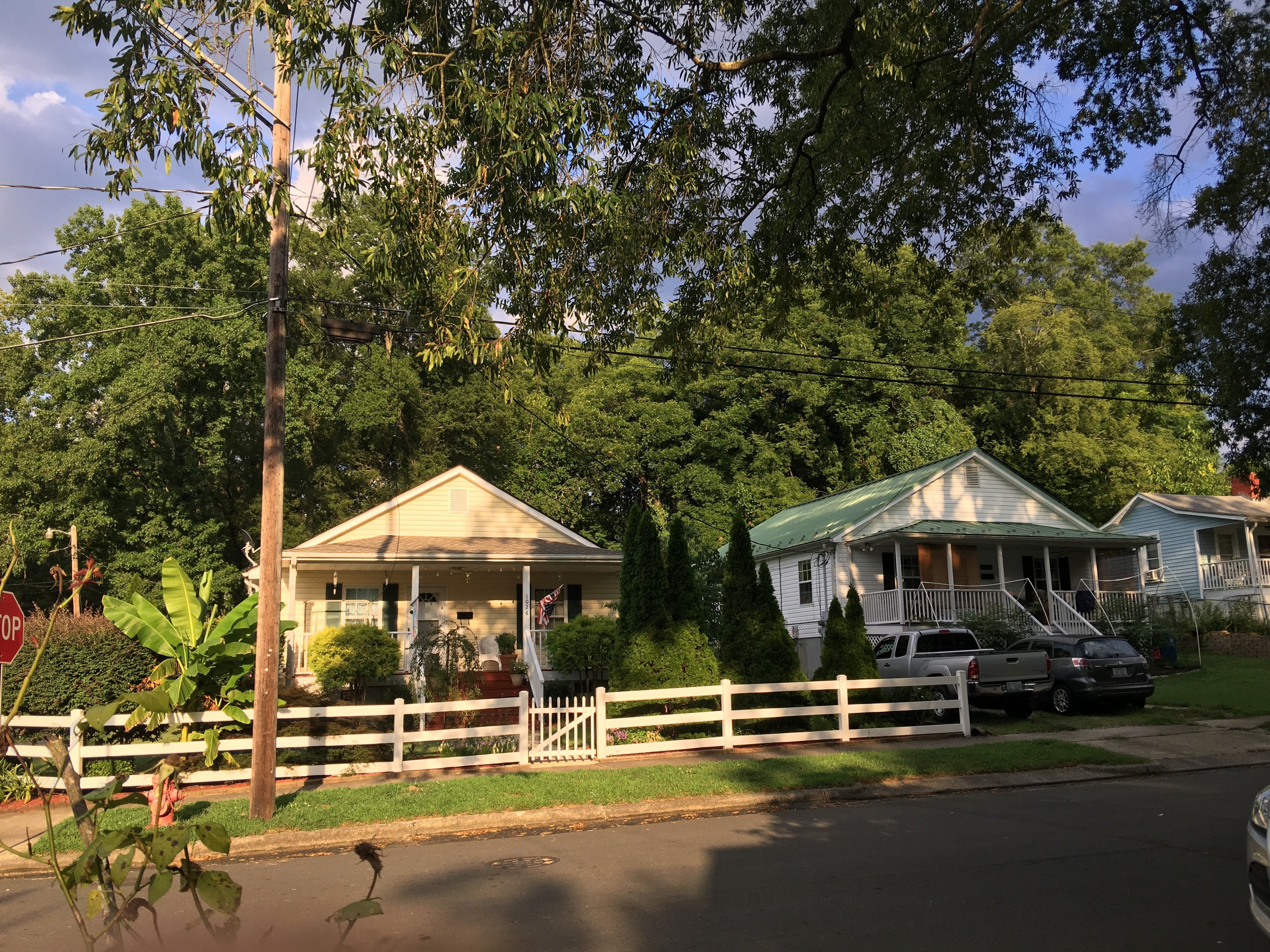 Mill houses in Walltown, Durham, North Carolina